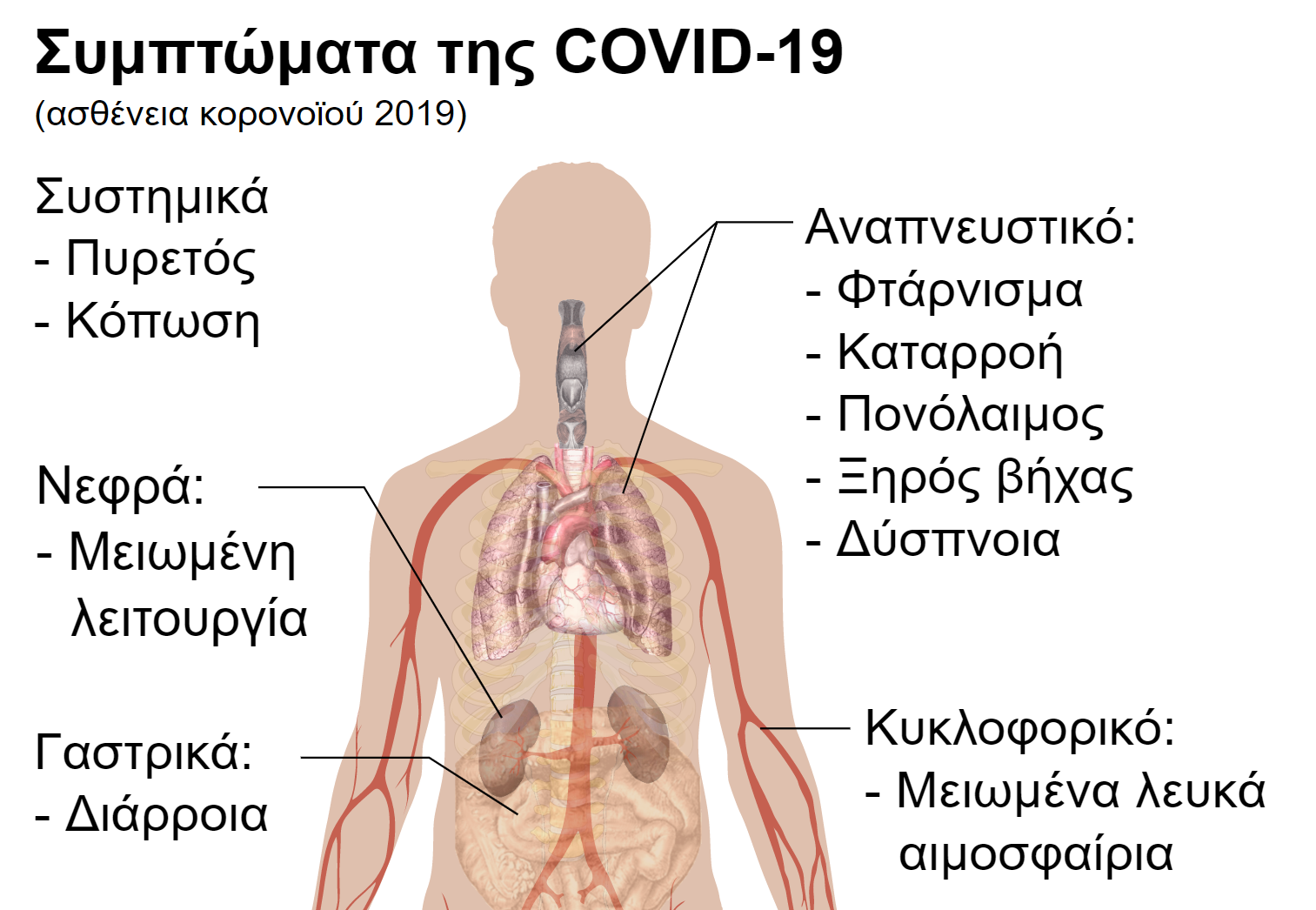 Symptoms of coronavirus disease 2019 (COVID-19), the disease seen in the 2019–20 coronavirus outbreak, and is caused by the Severe acute respiratory syndrome coronavirus 2 (SARS-CoV-2).